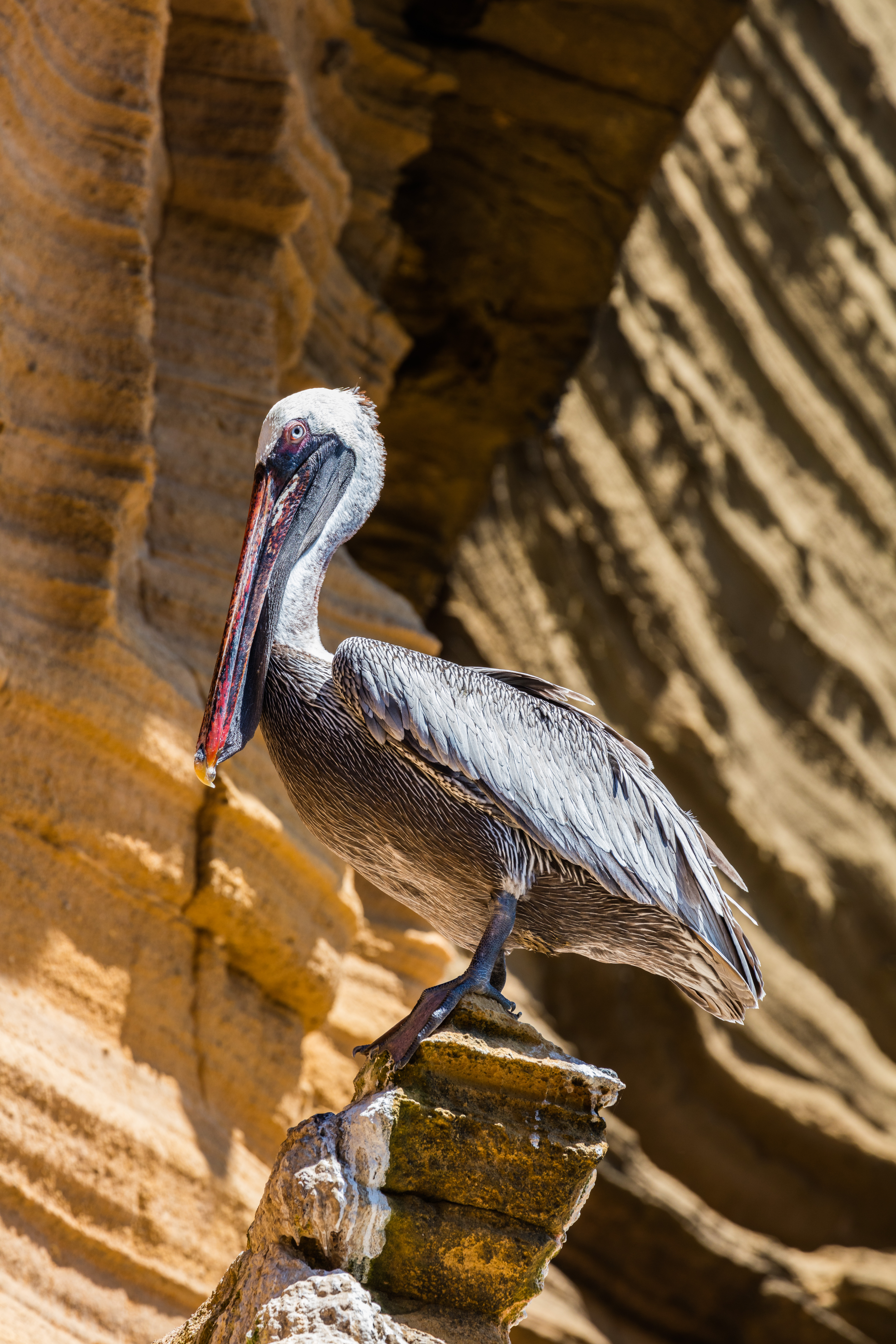 Exemplar of brown pelican (Pelecanus occidentalis) watching in a beach in Punta Pitt, San Cristobal Island, Galápagos Islands, Ecuador.